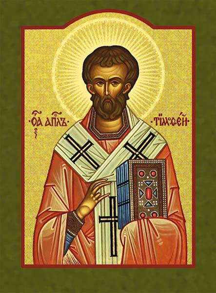 Saint Timothy (ortodox icon)